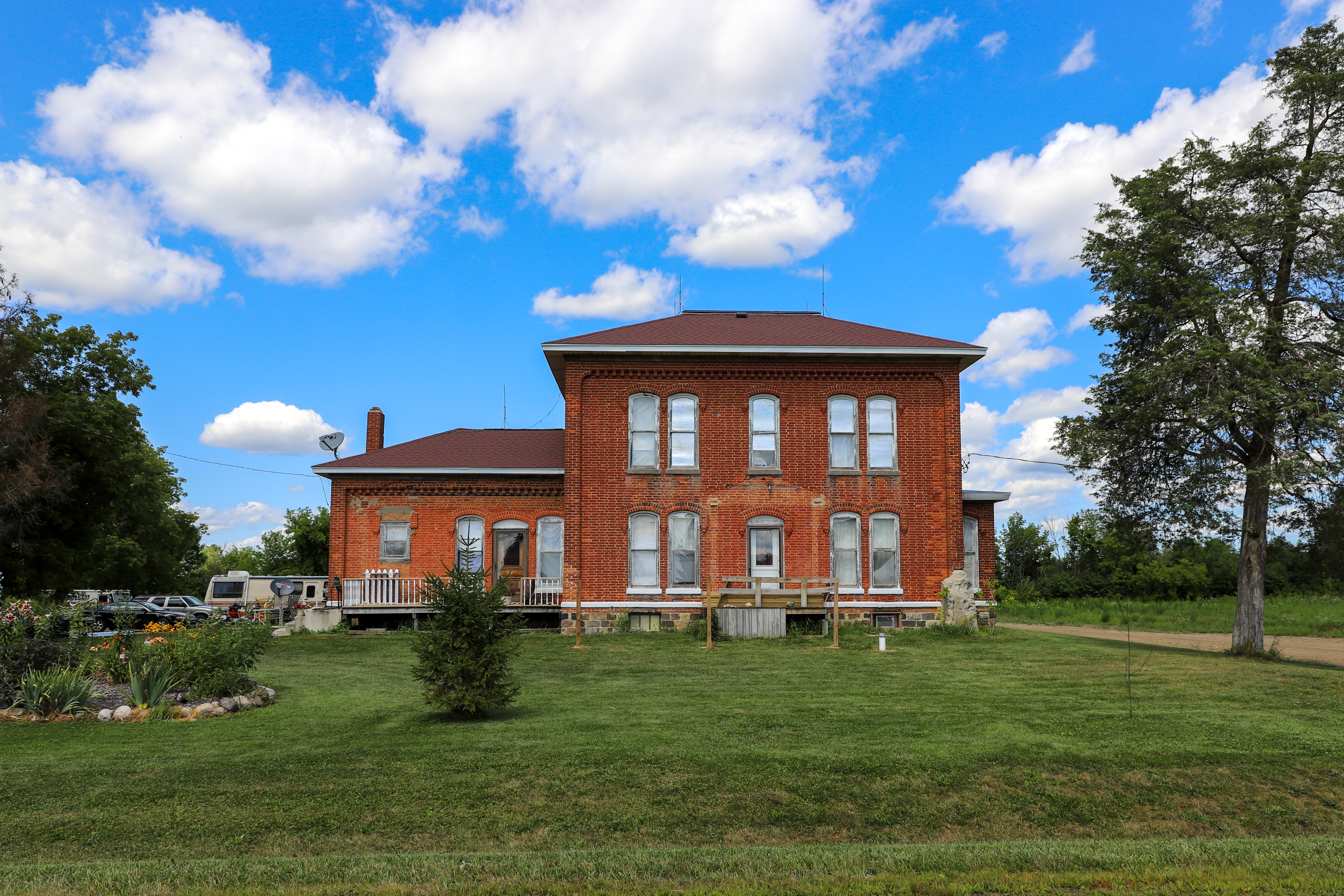 House at 4344 Frances Road, Clio, Michigan. Date of construction: between 1860 and 1975.